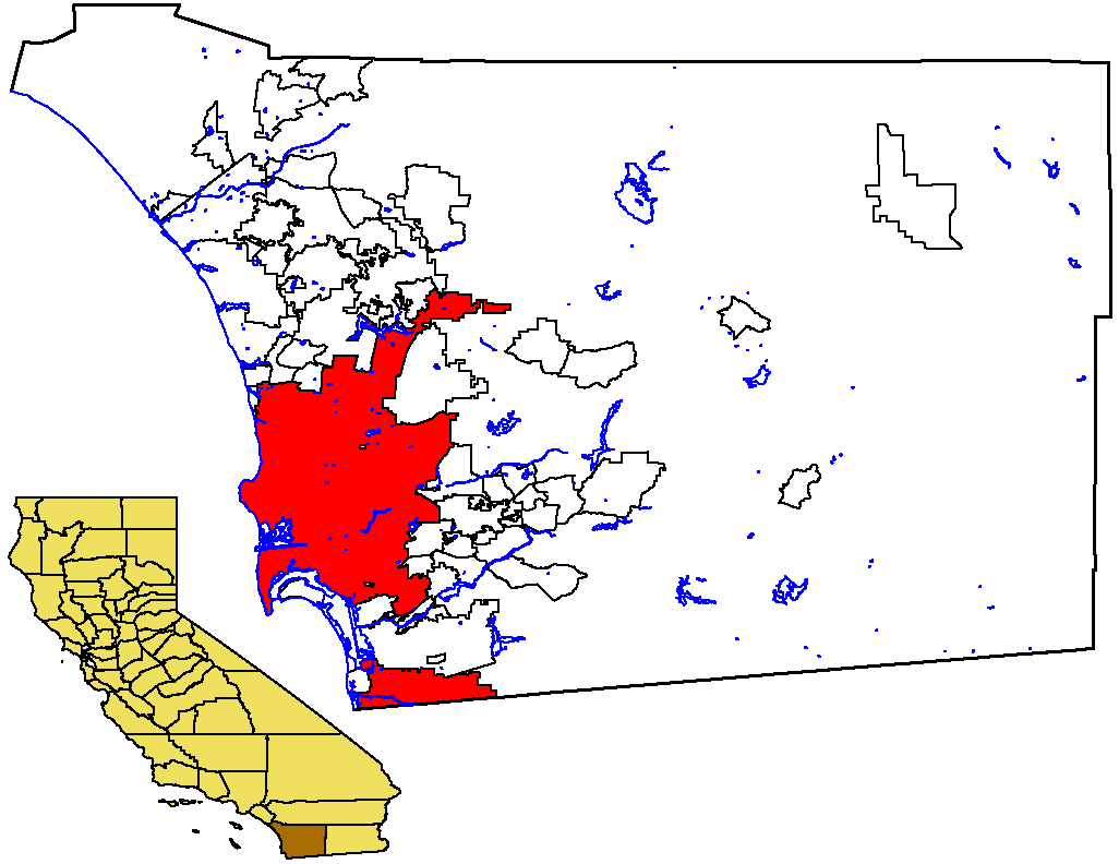 Locator map of the City of San Diego — in southwestern San Diego County, Southern California. from the english wikipedia. original description "Map of the City of San Diego within San Diego County, with County highlighted in California. I created this map from US Census Bureau data. I release it to Public Domain" by first publisher User:Mackerm